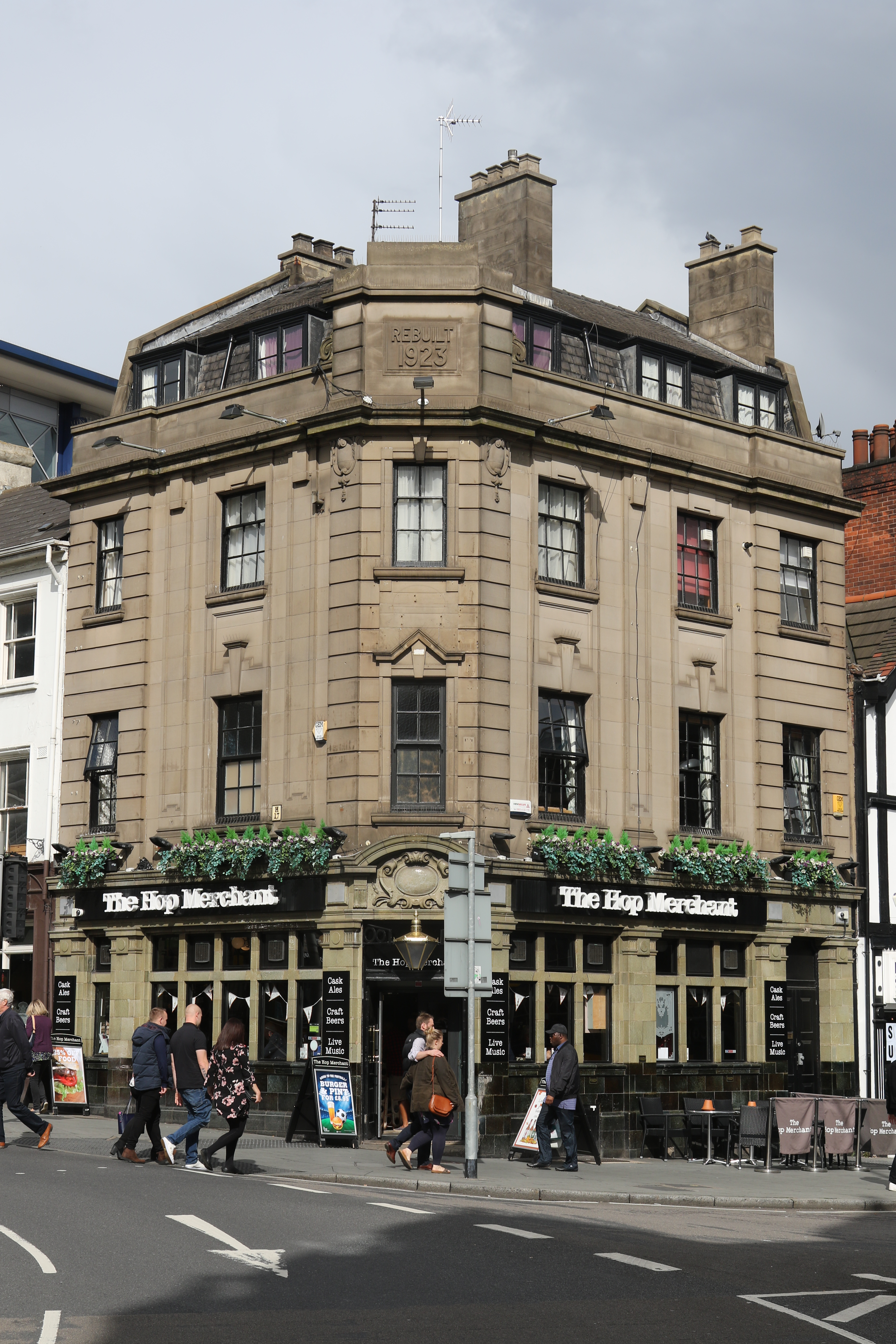 68 Upper Parliament Street, Nottingham. Formerly the Turf Tavern. Rebuilt in 1923 W.B. Starr and Hall in 1923.